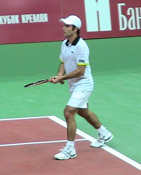 Santoro at 2009 Kremlin Cup